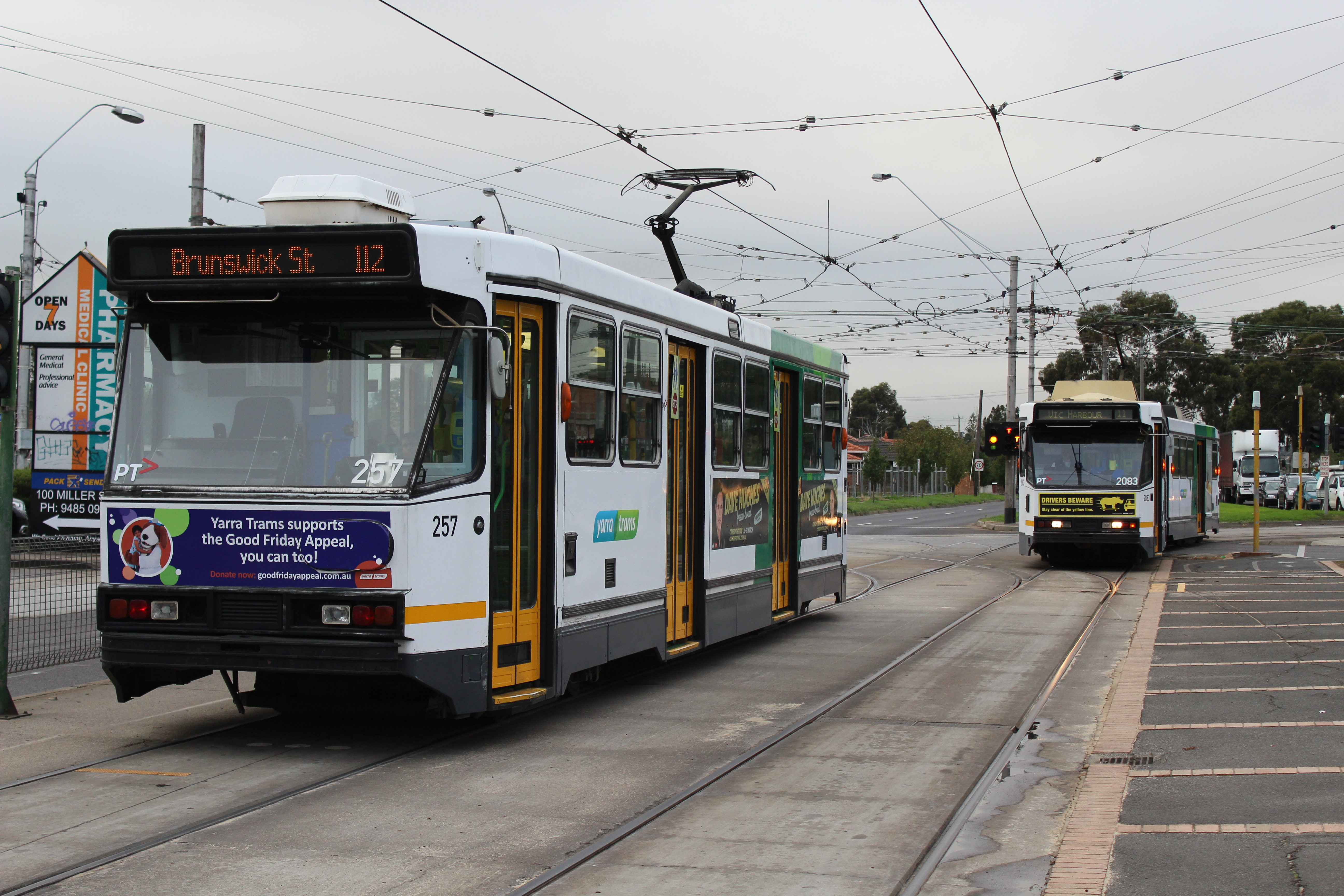 A1 257 and B2 2083 on route 112 and 11 respectively, in St Georges Rd near Preston Workshops, April 2013.